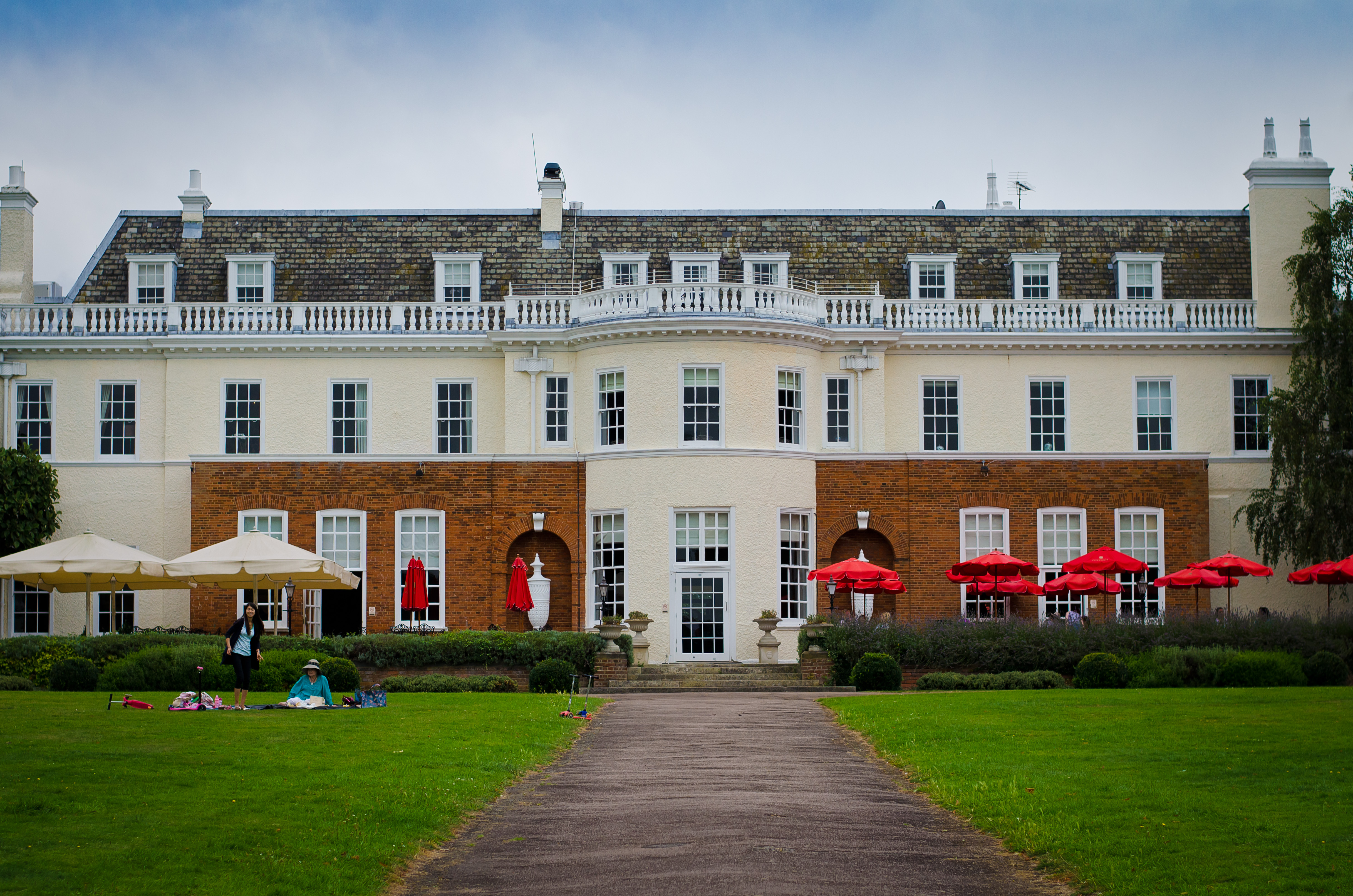 Situated in Cannizaro Park on Wimbledon Common (London), this Georgian mansion is now a hotel.